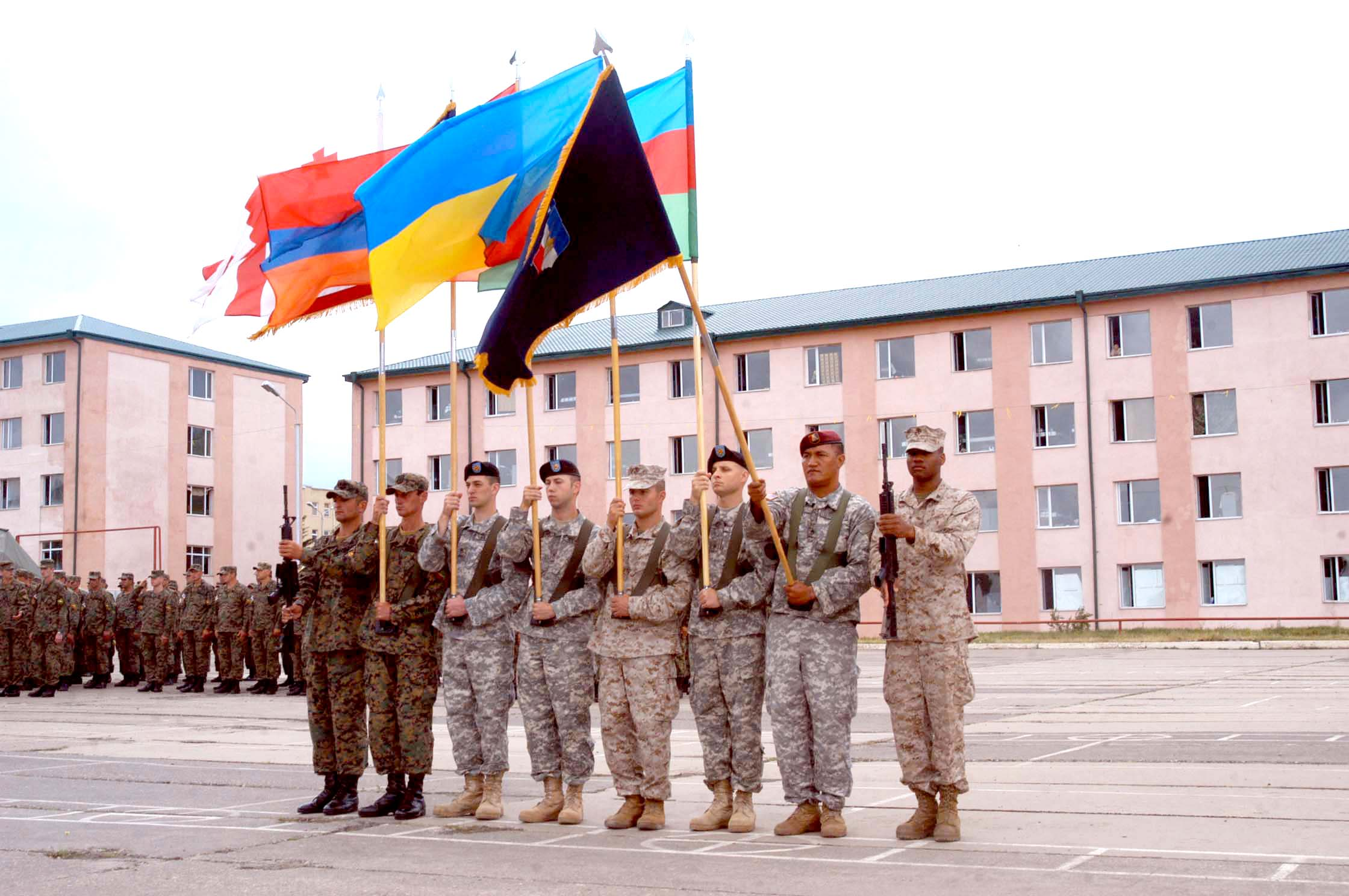 The joint-service, multi-national color guard, consisting of two Marines, four U.S. soldiers, and two Georgian soldiers, posted the colors during the opening ceremony here for Immediate Response 2008 July 14.